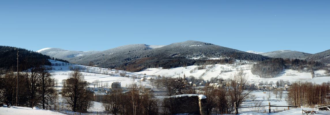 Panorama of village Bolesławów (Poland, Lower Silesia, municipality Stronie Śląskie) and Śnieżnik Mountains (Poland, Sudetes)